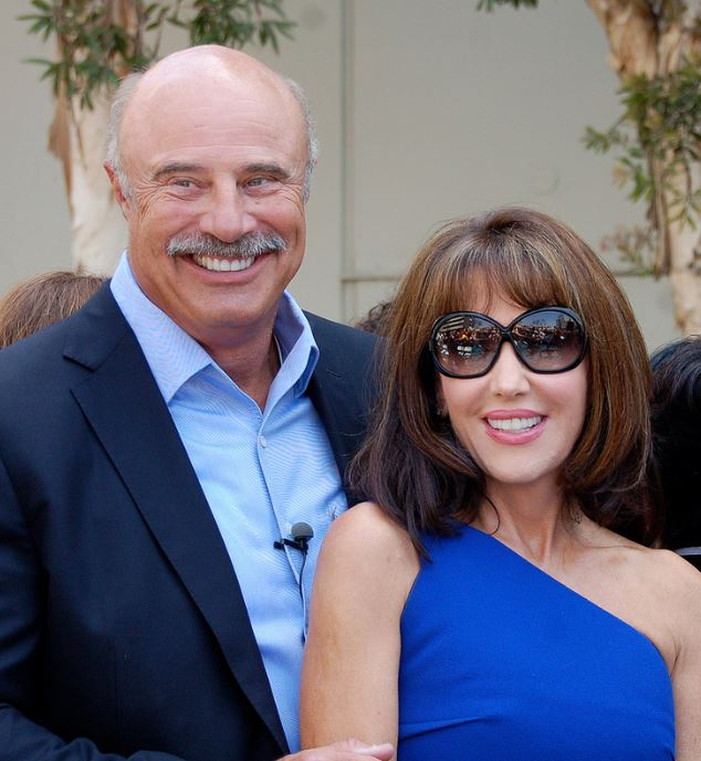 Phil and Robin McGraw at a ceremony for David Foster to receive a star on the Hollywood Walk of Fame.